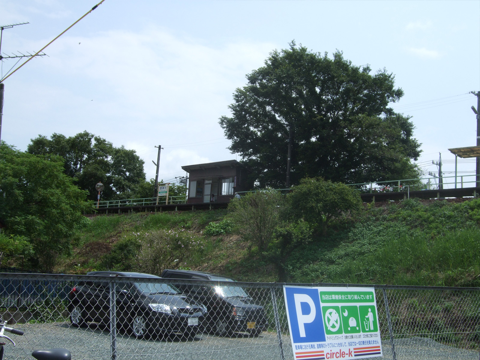 Tenryu Hamanako Line, Nishi-Kakegawa Station outside view